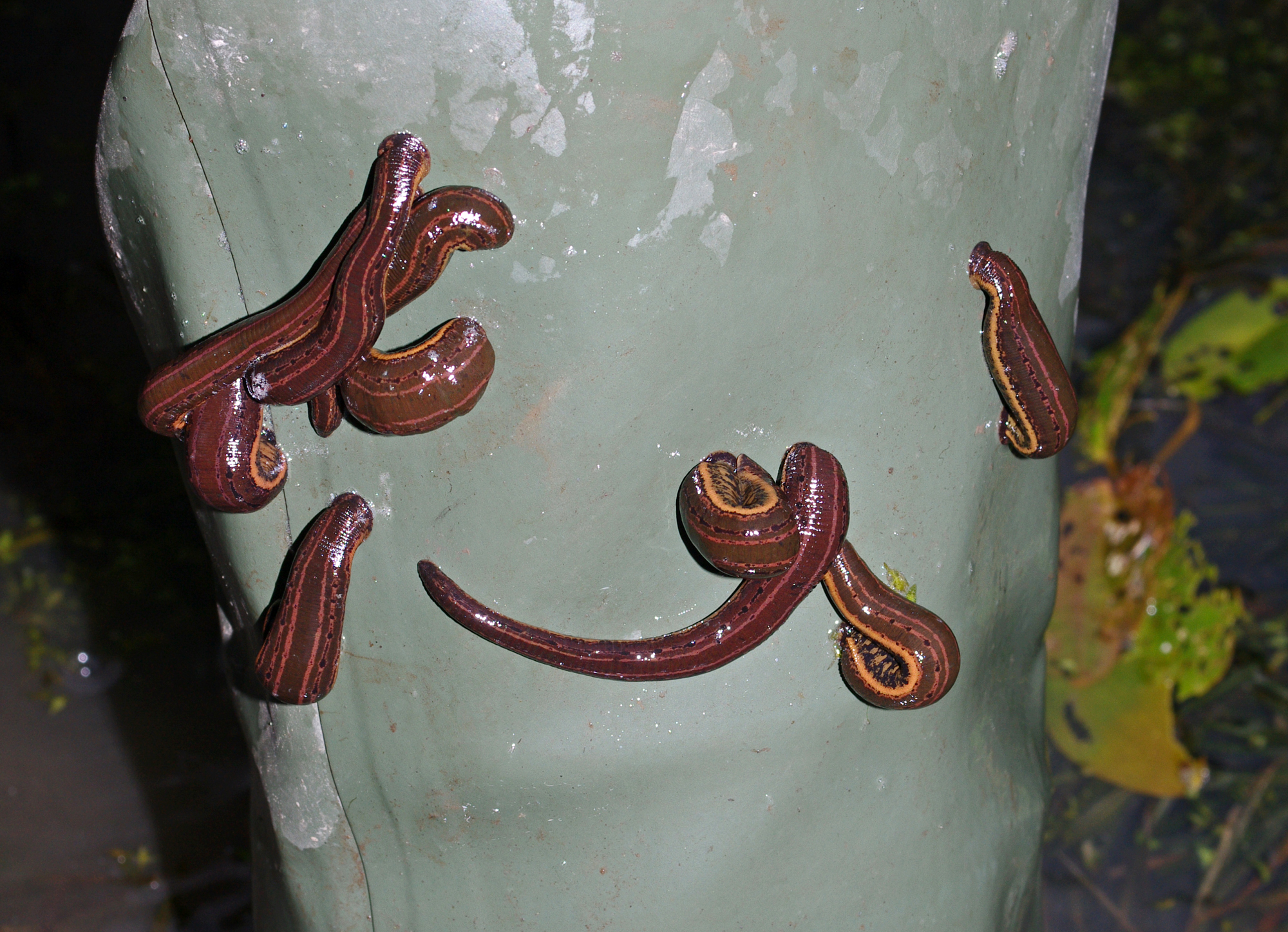 "Attack" by hungry European Medicinal Leeches, Hirudo medicinalis, while wading across a small weedy pond. Swimwear would not have been recommended here... Such a dense population of several hundred leeches is quite unusual in Central Europe – medical leeches have become a rare species in the wild.